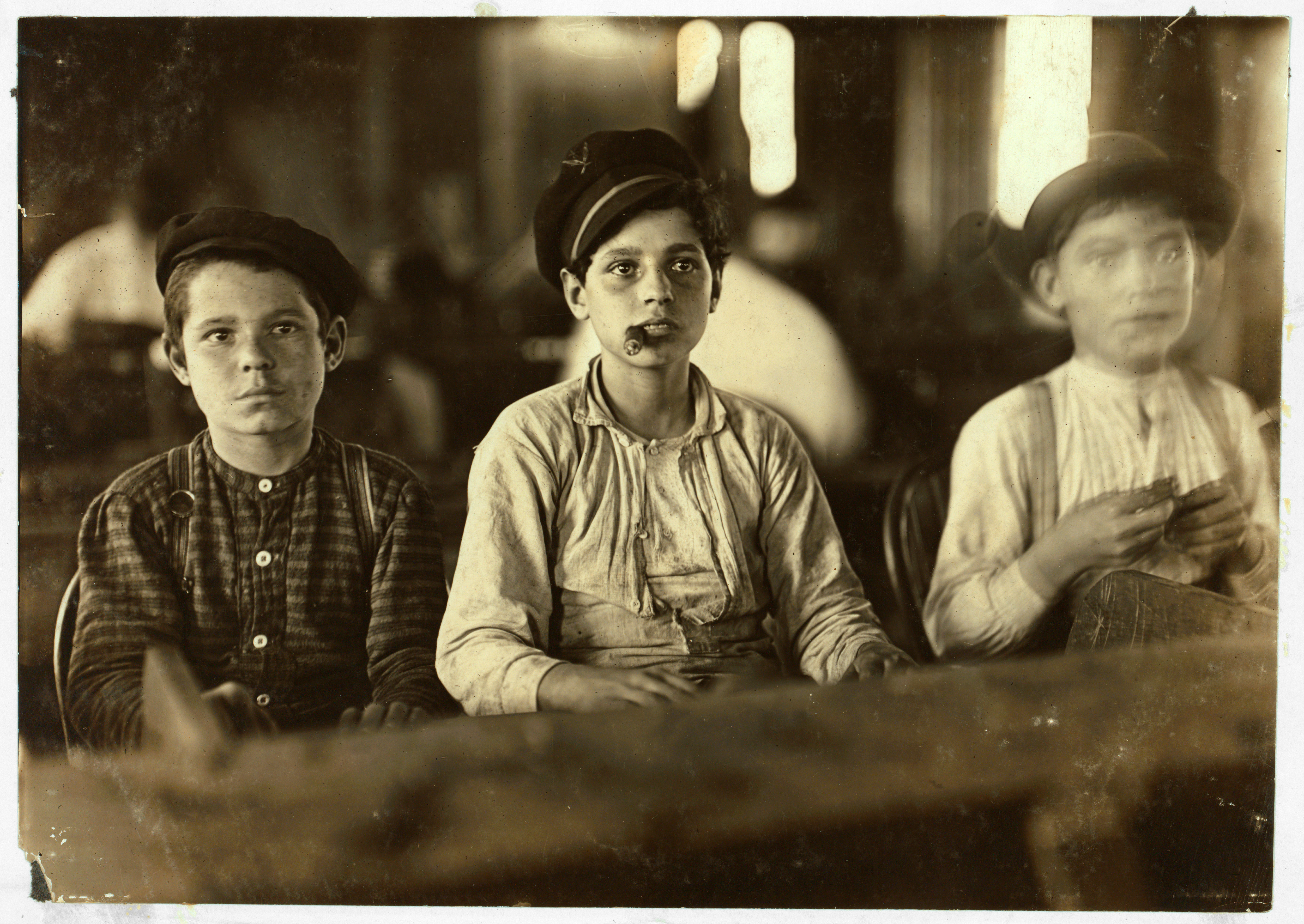 Young Cigarmakers in Englahardt & Co., Tampa, Fla. There boys looked under 14. Work was slack and youngsters were not being employed much. Labor told me in busy times many small boys and girls are employed. Youngsters all smoke (see 565). Witness Sara R. Hine. Location: Tampa, Florida. Photograph by Lewis Wickes Hines, January 1909. From the National Child Labor Committee Collection at the Library of Congress